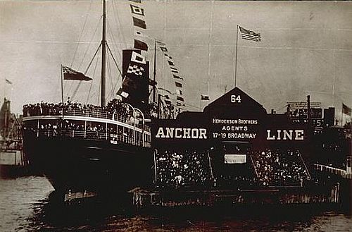 A picture of the SS California